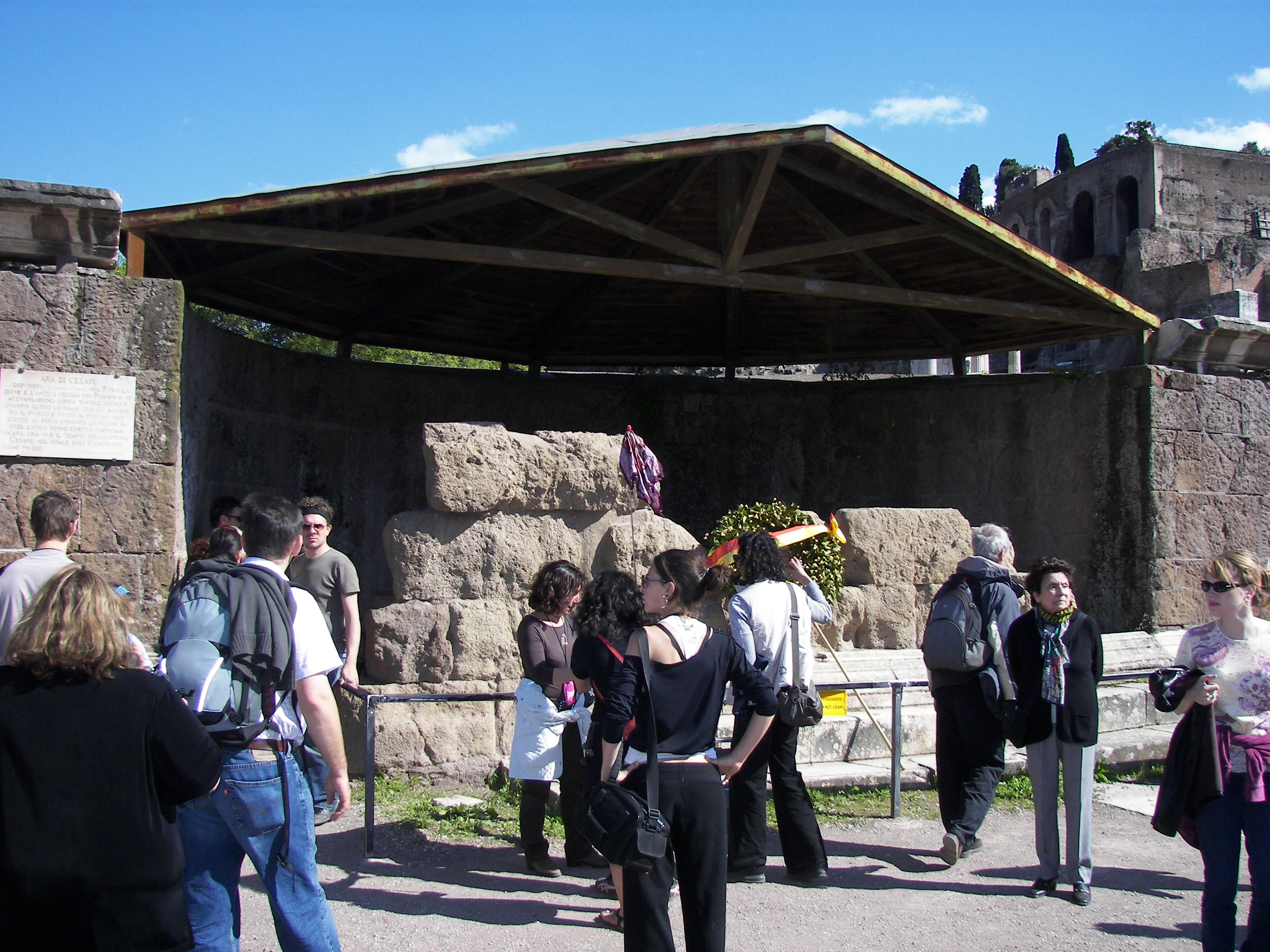 Temple of Caesar in the Forum Romanum in Rome.